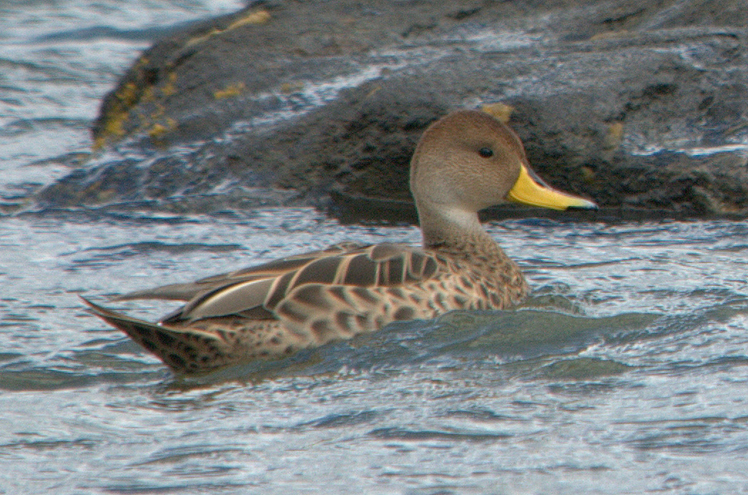 Yellow-billed Pintails in Puerto Natales, Patagonia, Chile.